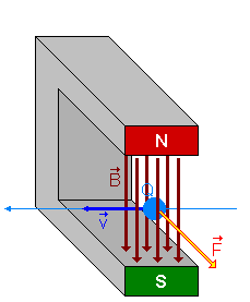 The first half of the original image.